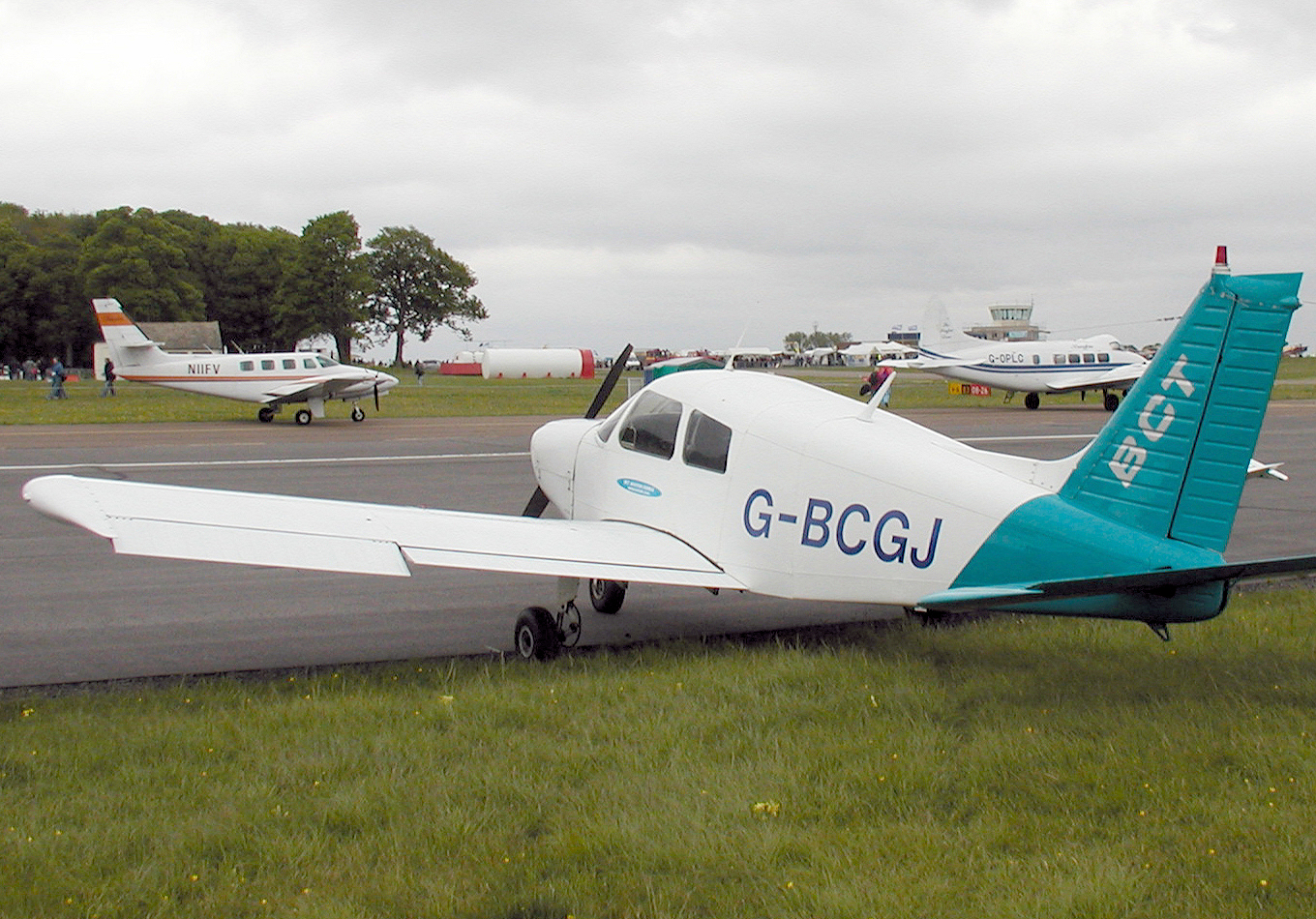 Piper Cherokee PA-28-140 (UK registration G-BCGJ) at Kemble Airfield, Gloucestershire, England. Built in the year 1974.